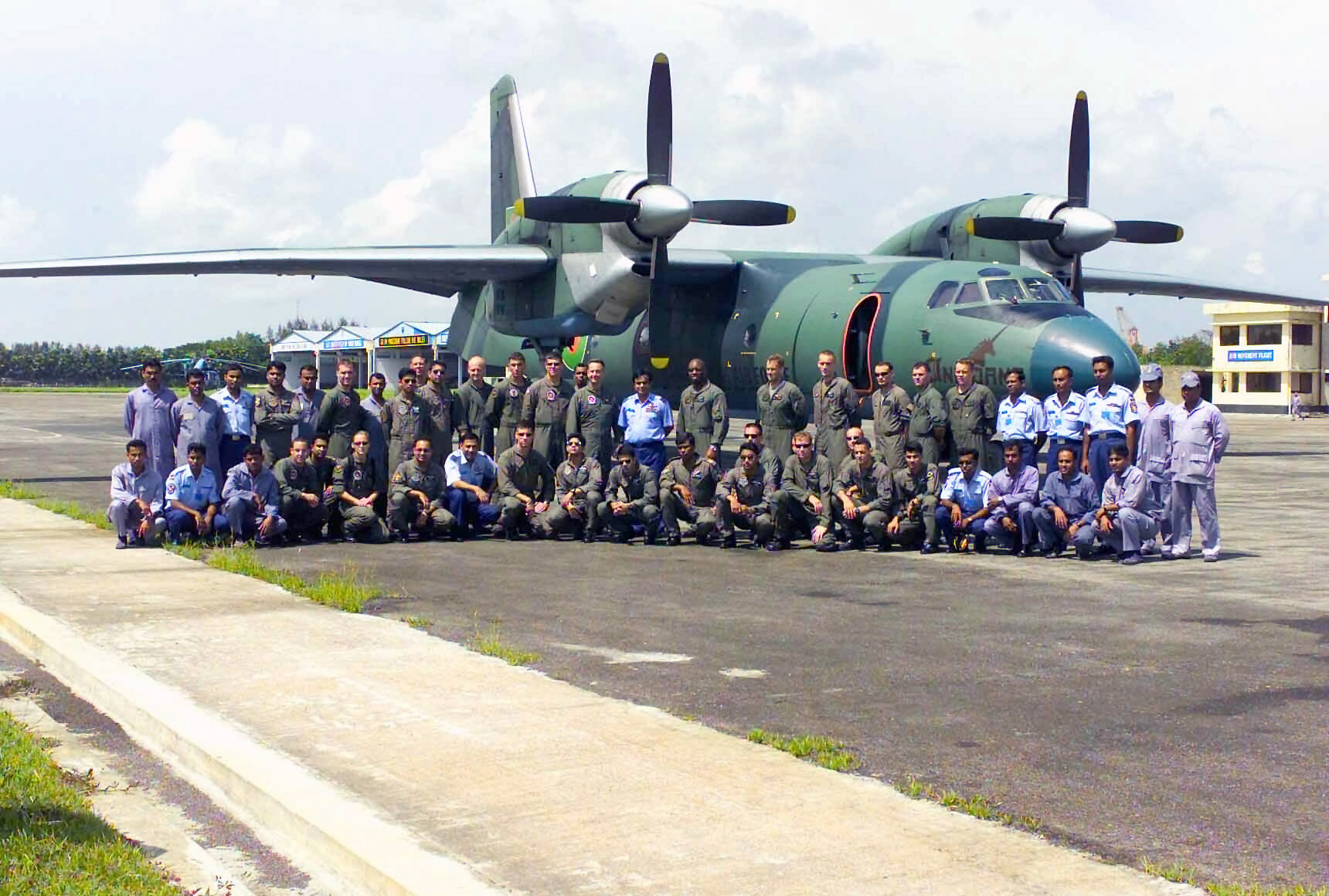 US Marine Corps (USMC) personnel from Marine Aerial Refueler/Transport Squadron 152 (VMGR-152); 3rd Air Delivery Platoon; and 3rd Force Service Support Group pose for a photograph with Bangladesh Defense Force Air Wing personnel, in front of a Antonov AN-32B.